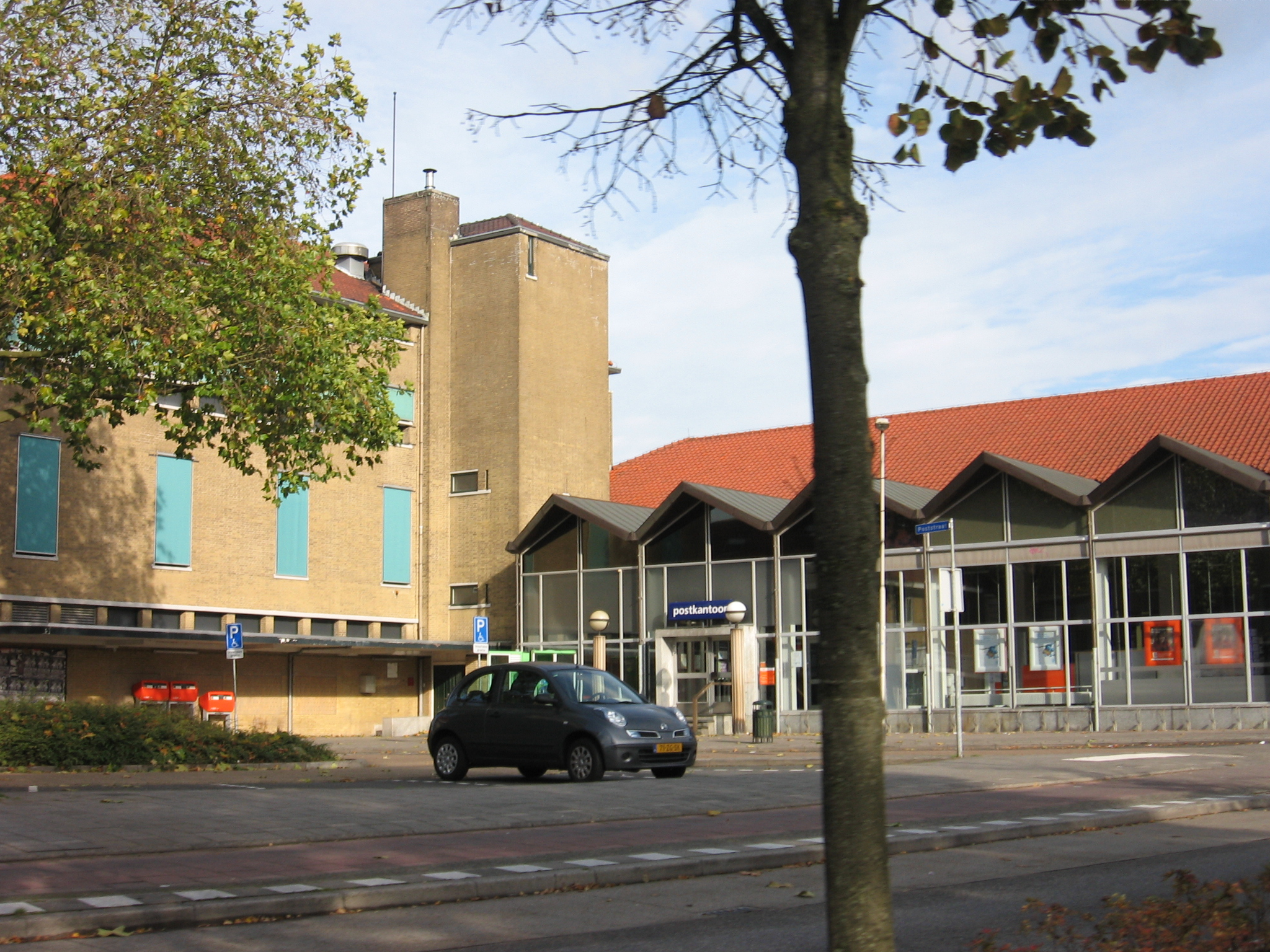 Postkantoor, Bussum